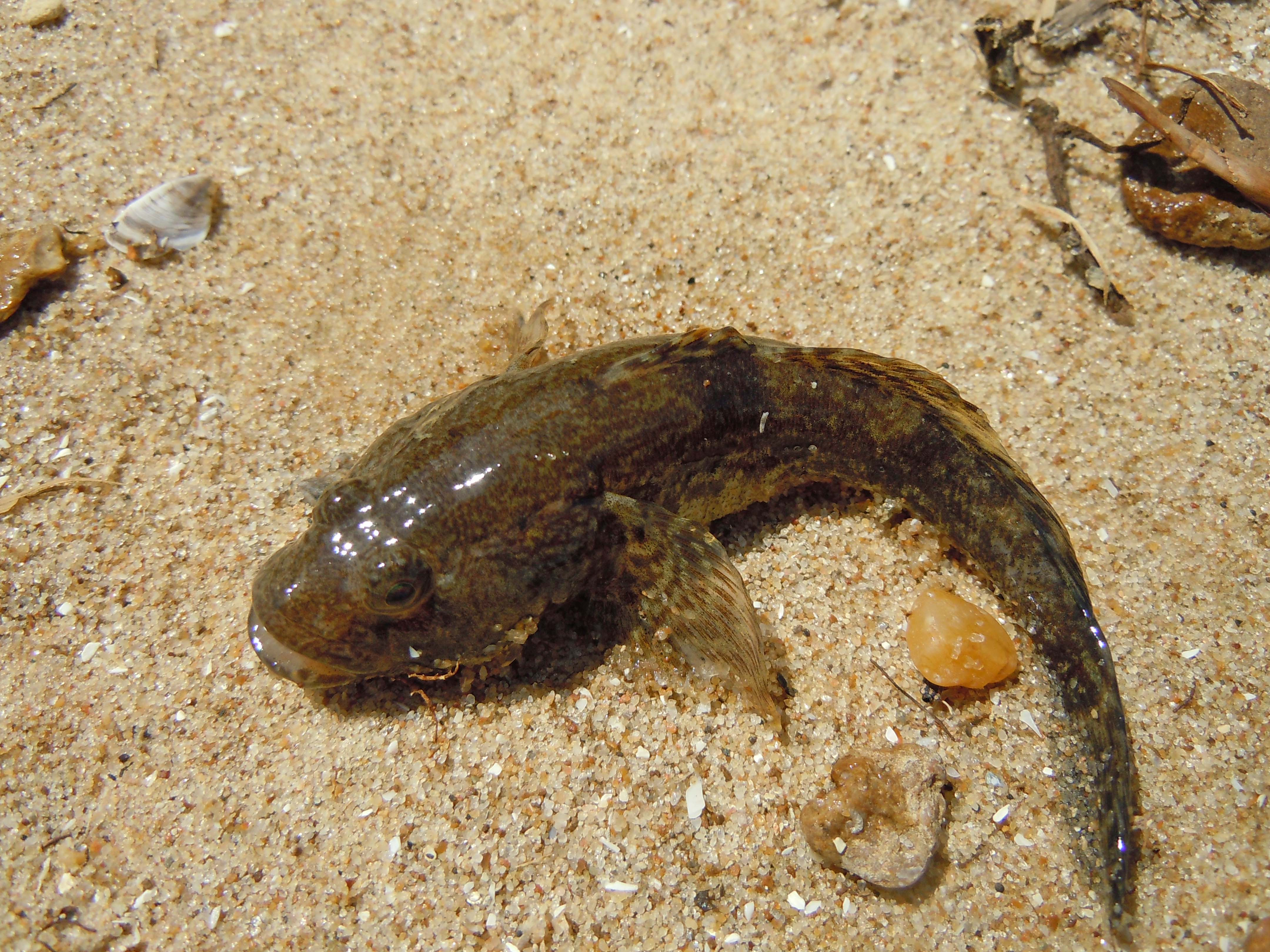 The bighead goby (Ponticola kessleri) from the Dniester Estuary, Ukraine